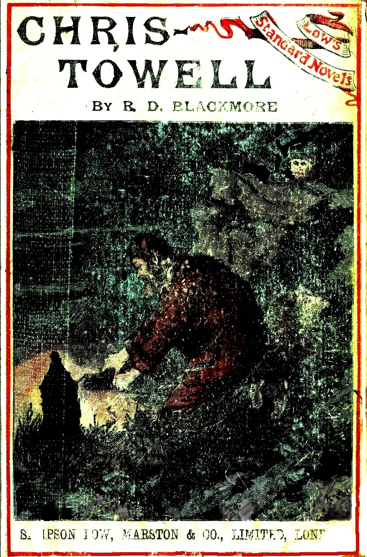 Cover of the novel Christowell by R. D. Blackmore. The novel was first published in 1882. This book cover is from the 1891 edition.